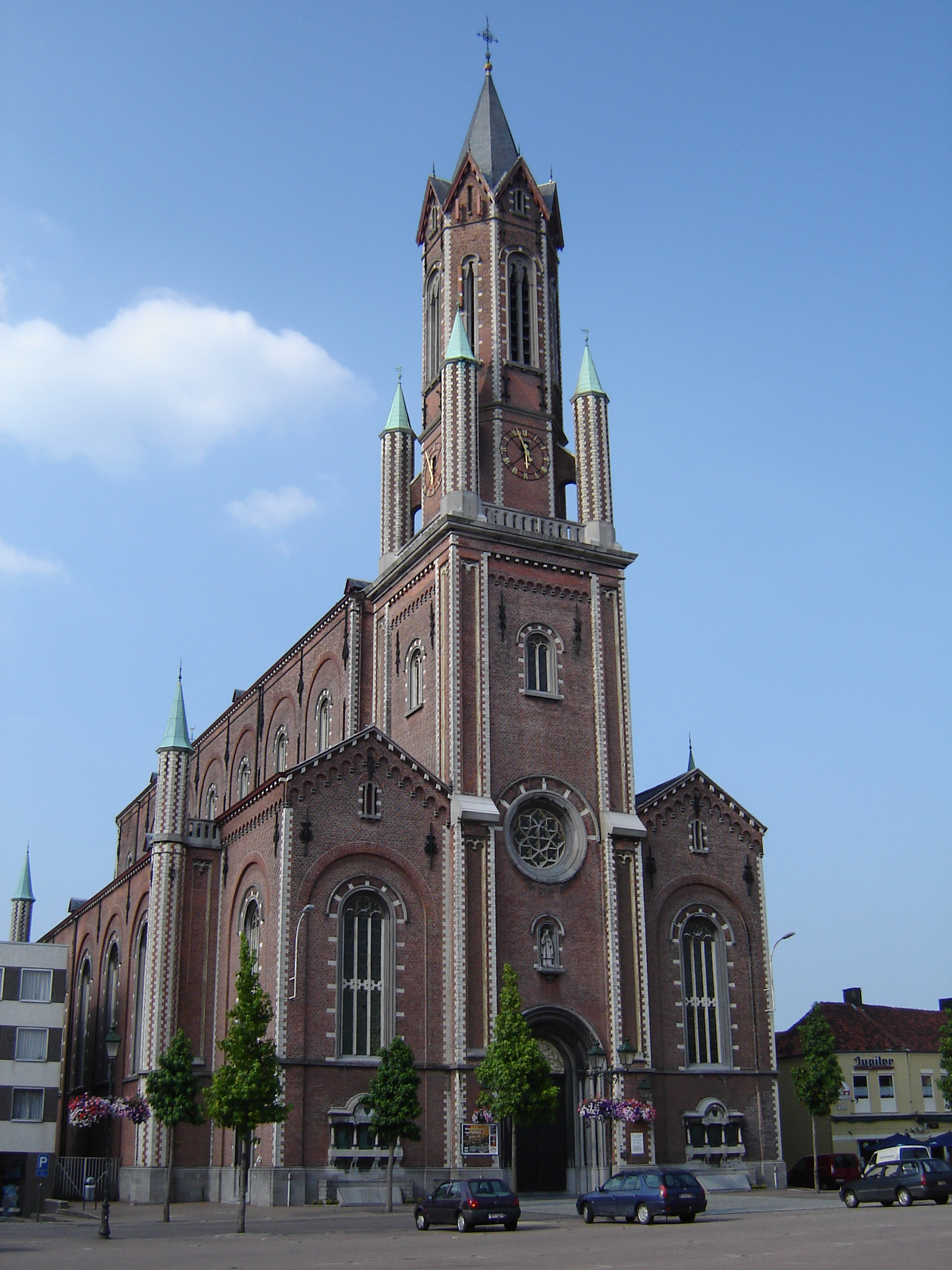 Church of Saint-Gertrude in Wetteren. Wetteren, East Flanders, Belgium